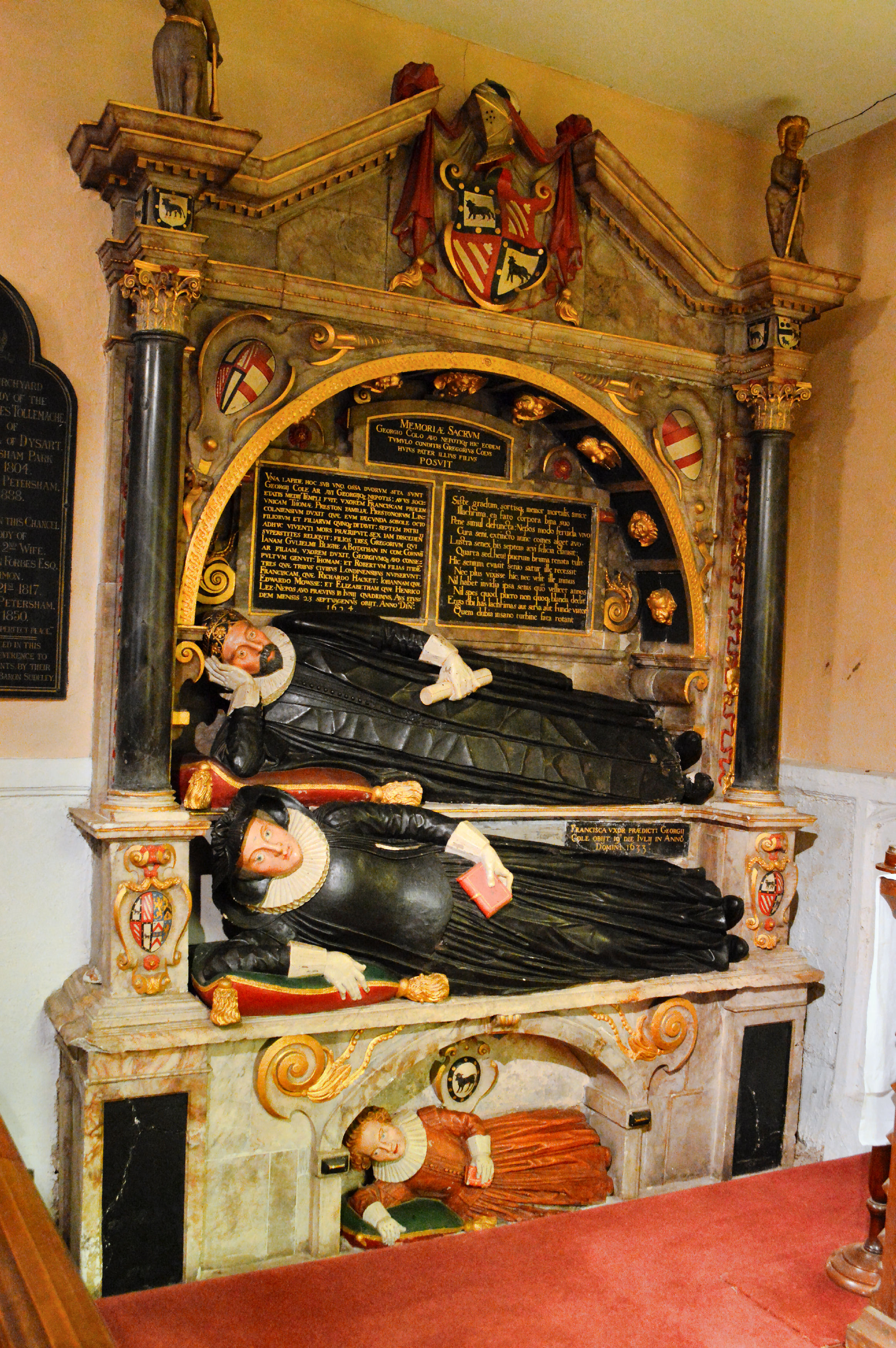 Memorial to George Cole (d. 1624) and wife. St Peter's Church, Petersham, Surrey. Heraldry: At top of right-hand column arms of Lee (Argent, a fess sable between two pellets in chief and a martlet in base of the second a mullet gules for difference) impaling Cole (Argent, a bull passant sable armed or a bordure of the second bezantée), for marriage of Elizabeth Cole, daughter of George Cole (d.1624), to Henry Lee of London. (Source: Victoria County History, Surrey, Vol.3, p.532, quoted in: Surrey Coats of Arms[1]) Preston of Petersham: Ermine, two bars and a canton gules thereon a cinquefoil or (Edmondson, Joseph, A Complete Body of Heraldry, Volume 1, 1780, p.94Argent three bends within a bordure engrailed Gules&f=false) Cole quartering 2&3: Argent, three bendlets gules a bordure engrailed of the last (Bodrugan, with difference a bordure engrailed, for an illegitimate branch of Bodrugan). Sir John Cole (fl.1380) of Nethway, Brixham, Devon, married Anne Bodrugan, daughter and heiress of Sir Nicholas Bodrugan (Vivian, Lt.Col. J.L., (Ed.) The Visitations of the County of Devon: Comprising the Heralds' Visitations of 1531, 1564 & 1620, Exeter, 1895, p.213) The bordure should be sable, not gules, see: The Genealogie or Pedegree of the Right Worshipfull and Worthie Captaine Sir William Cole of the Castell of Eneskillen in the Countie of Ffermanaugh in the Kingdom of Ireland, Knight, by Sir William Segar, Garter, and William Penson, Lancaster; Copied from the Original Roll, published 1870, Plate 16 [2]